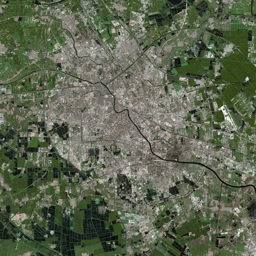 Tianjin by SPOT Satellite